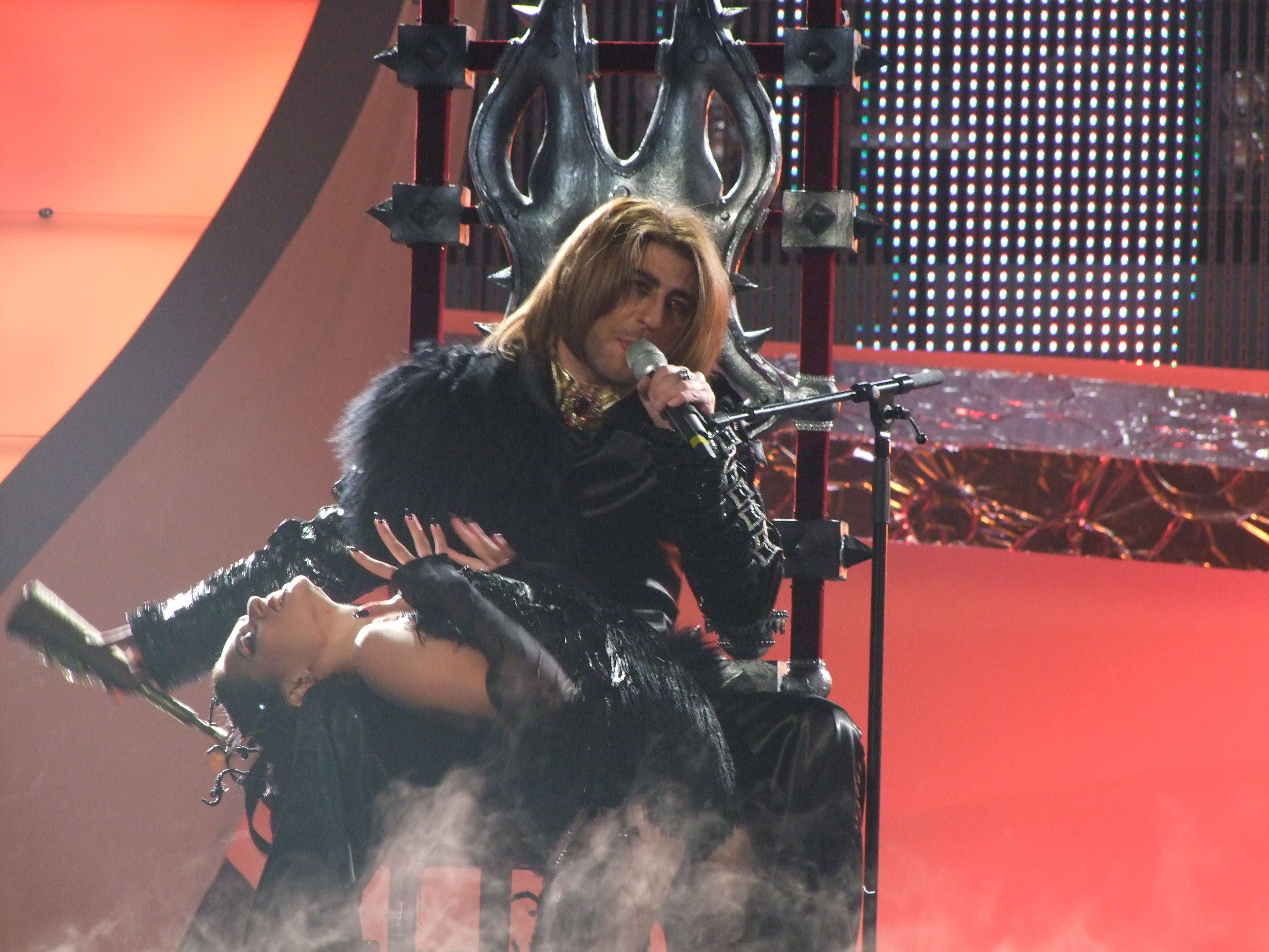 Eurovision Song Contest 2008, 1st semifinal Azerbaijan: Elnur & Samir - Day after day